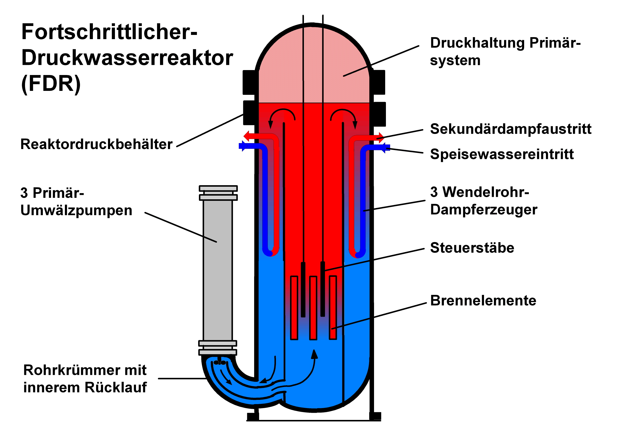 FDR Fortschrittlicher Druckwasserreaktor/advanced pressurized water reactor